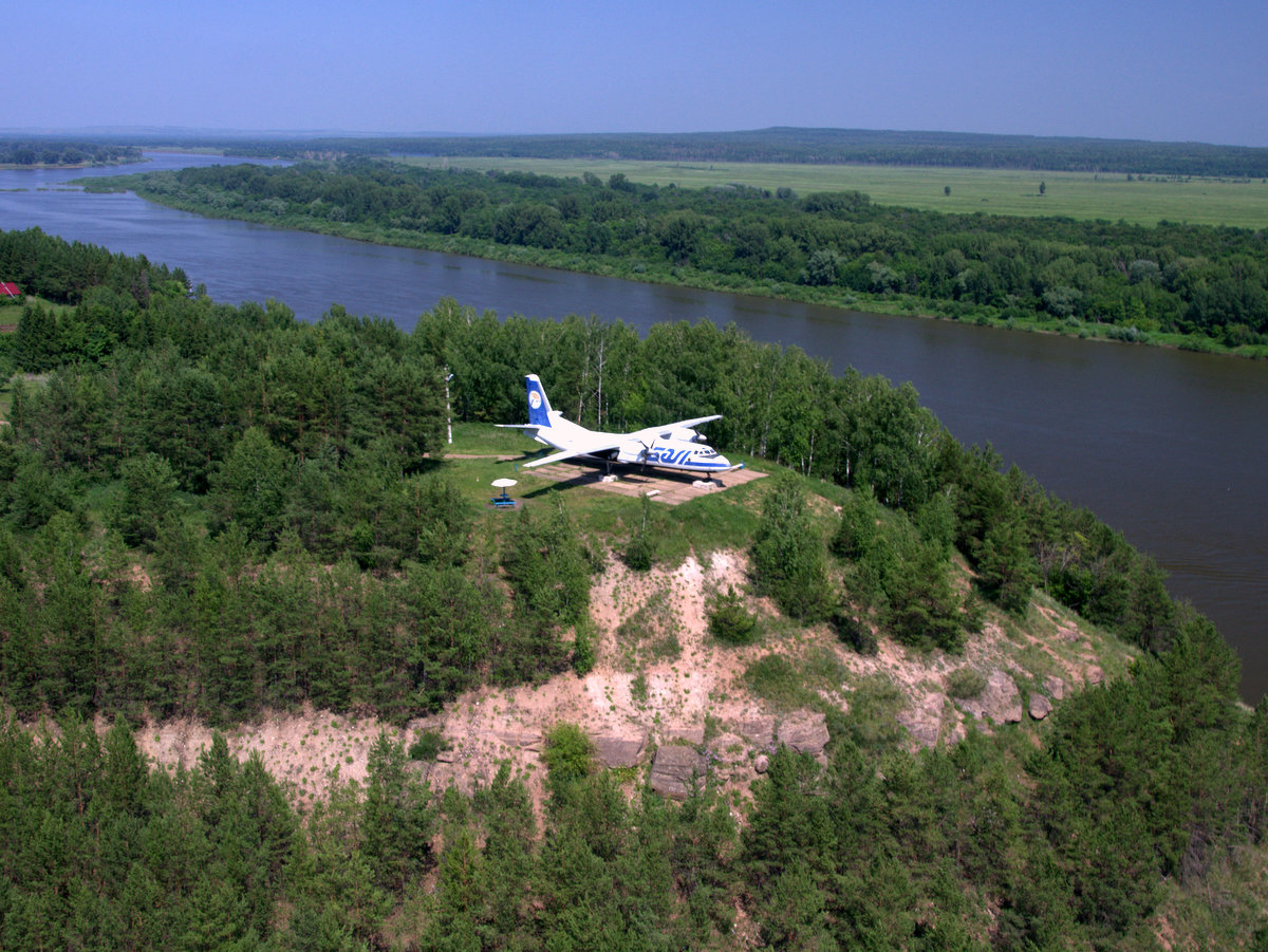 BAL Bashkirian Airlines Antonov An-24B (RA-46568) in Kushnarenkovo. Located approximately 50 kilometres from Ufa International Airport, the An-24B replaced a Tupolev Tu-124 which was previously erected as a monument at the site and which was removed in the mid-1990s.